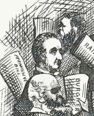 Simeon Jacobs - centre. Cape Attorney General. Prime Minister Molteno also in foreground and Charles Brownlee in the background. From caricatures of the Molteno government in the Lantern Newspaper.